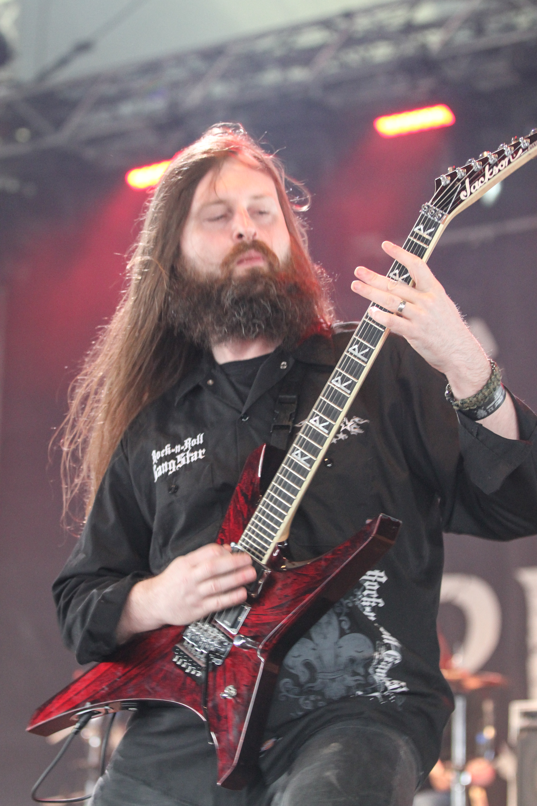 US Band All That Remains at With Full Force Festival 2013 Oli Herbert